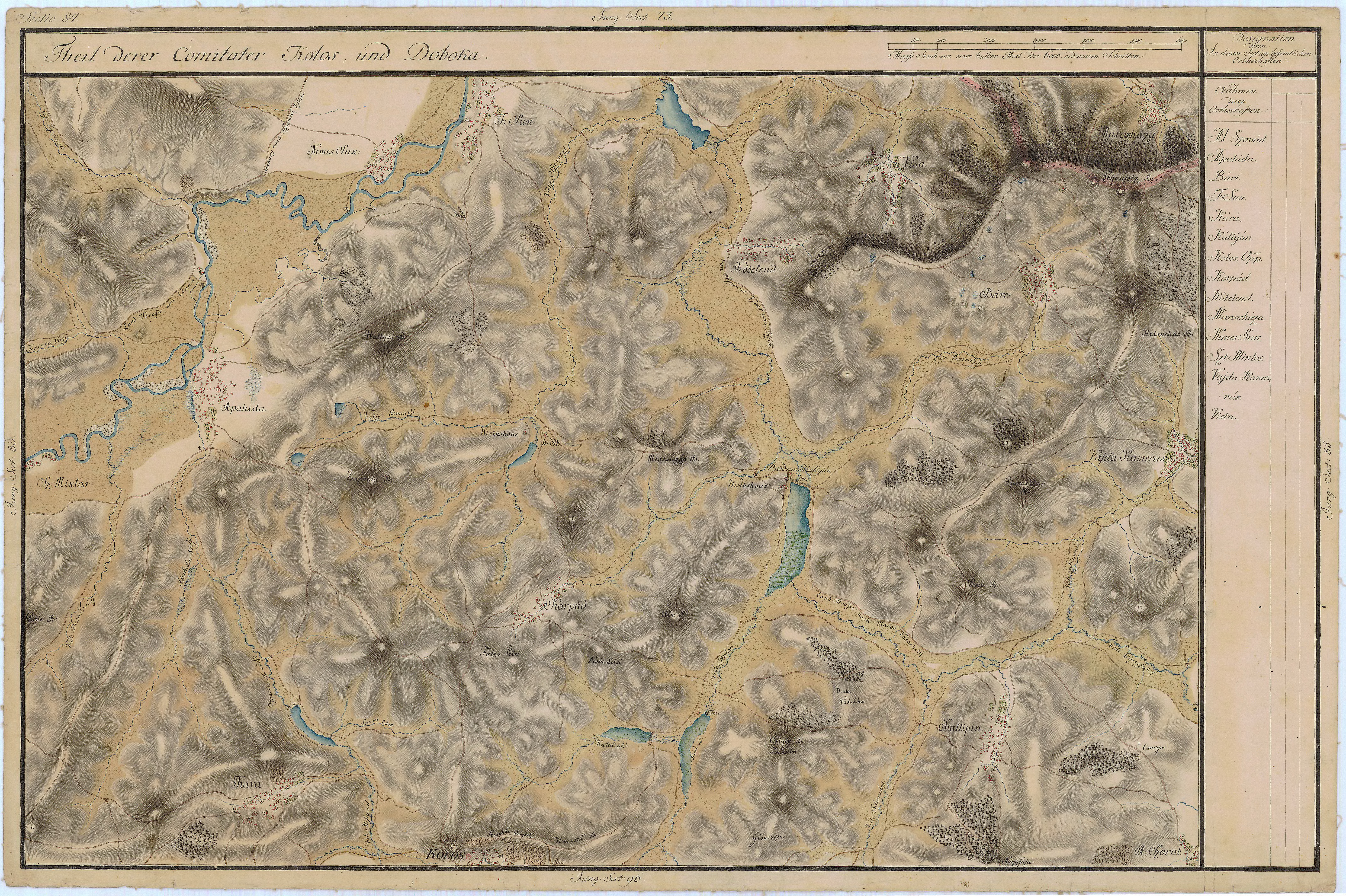 Grand Duchy of Transylvania, 1769-1773. Josephinische Landaufnahme pg.084